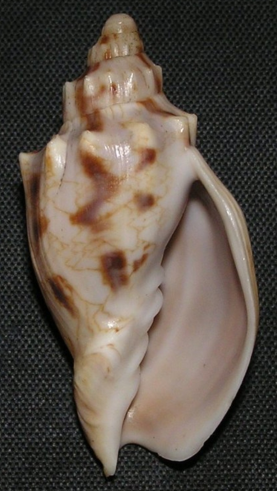 Photograph of the seashell Odontocymbiola americana (Reeve, 1856)[1] / Origin of image: Own collection. Brazil, Santos.